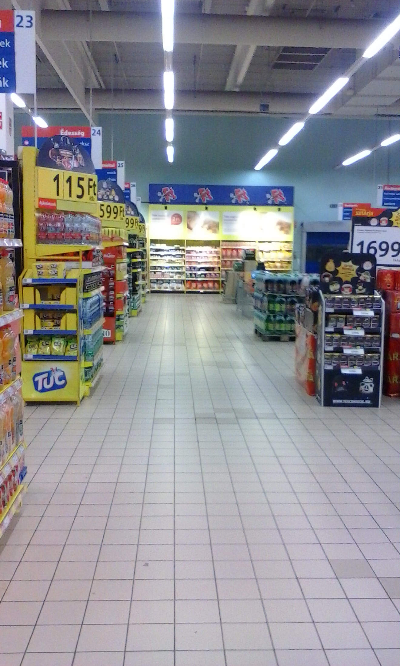 tesco-nyíregyháza